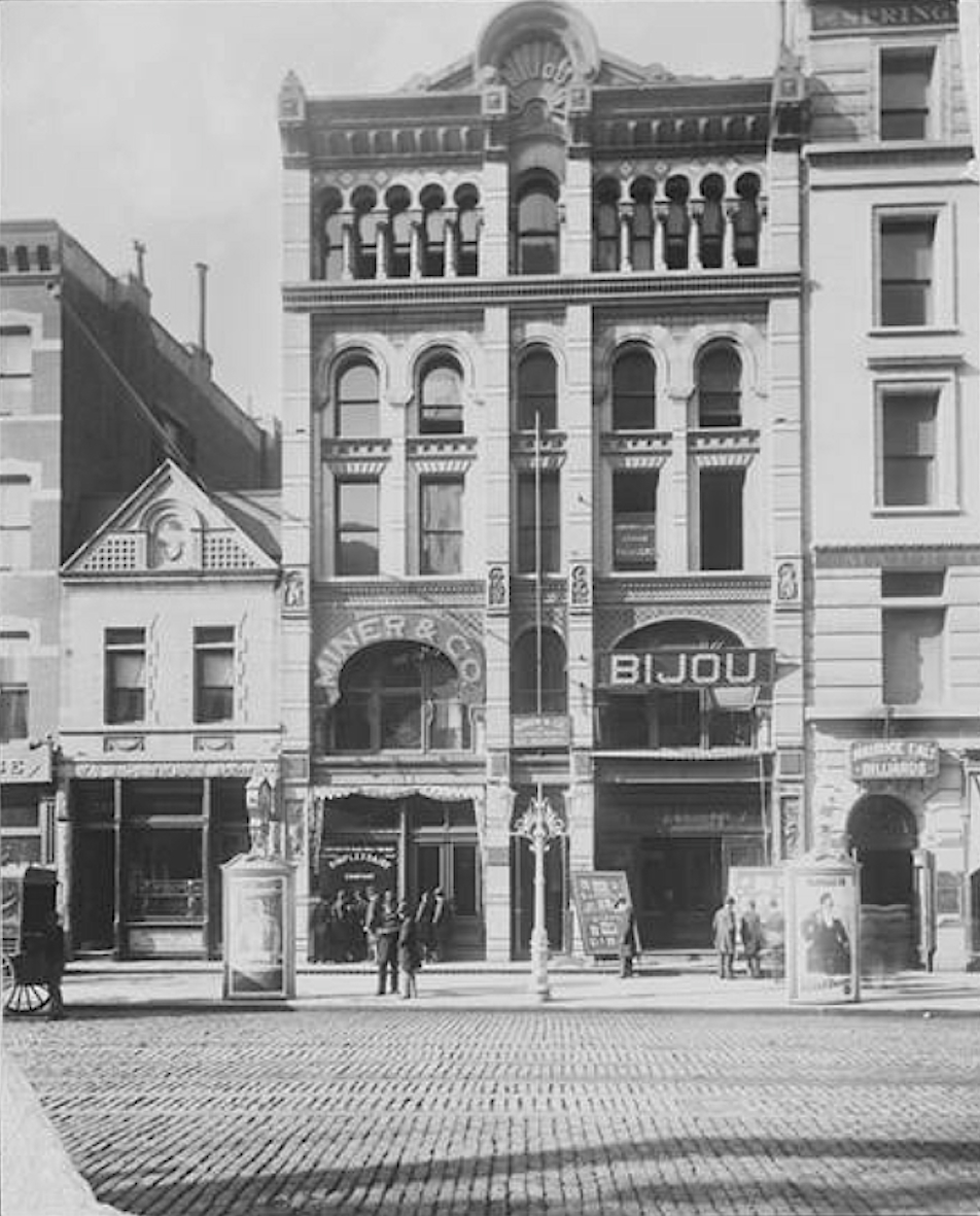 Bijou Theatre building, 1237-1239 Broadway (between 30th and 31st Streets, west side), Manhattan,with adjacent buildings at 1235 (left, sign reads: "Wines & Liquors Bottled for Medical and Home use")and 1239 (right, sign over entrance reads: "Maurice Daly Billiards"). Sign on window of store at 1237 reads: "Your butter made while you wait / Buttermilk Cream / Simplex Dairy Company". Sign over center door reads: "Miner & Co. Electrical Engineers 1237 Broadway". Curb poster at left, topped by elaborate decoration reading "Bijou Opera House", advertises Peter F. Dailey in The Night Clerk.Curb poster at right advertises the same, "commencing Nov. 11". References: "New Theatrical Bills. Peter F. Dailey in Town", The New York Times, November 12, 1895 "Last Night's New Plays", The Sun (New York), November 12, 1895, p. 3, col. 5